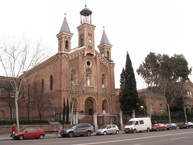 Hospital del Niño Jesús, in Madrid (Spain). Building was projected in 1879 by Francisco Jareño y Alarcón and built from 1881 to 1885. Neo-Mudéjar style.